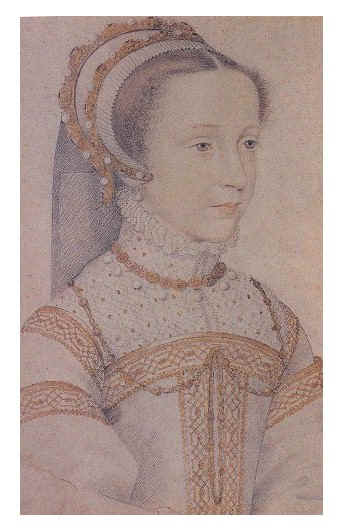 Princess Mary Stuart of Scotland, the later Queen Mary I. of Scotland, at the age of 13 years